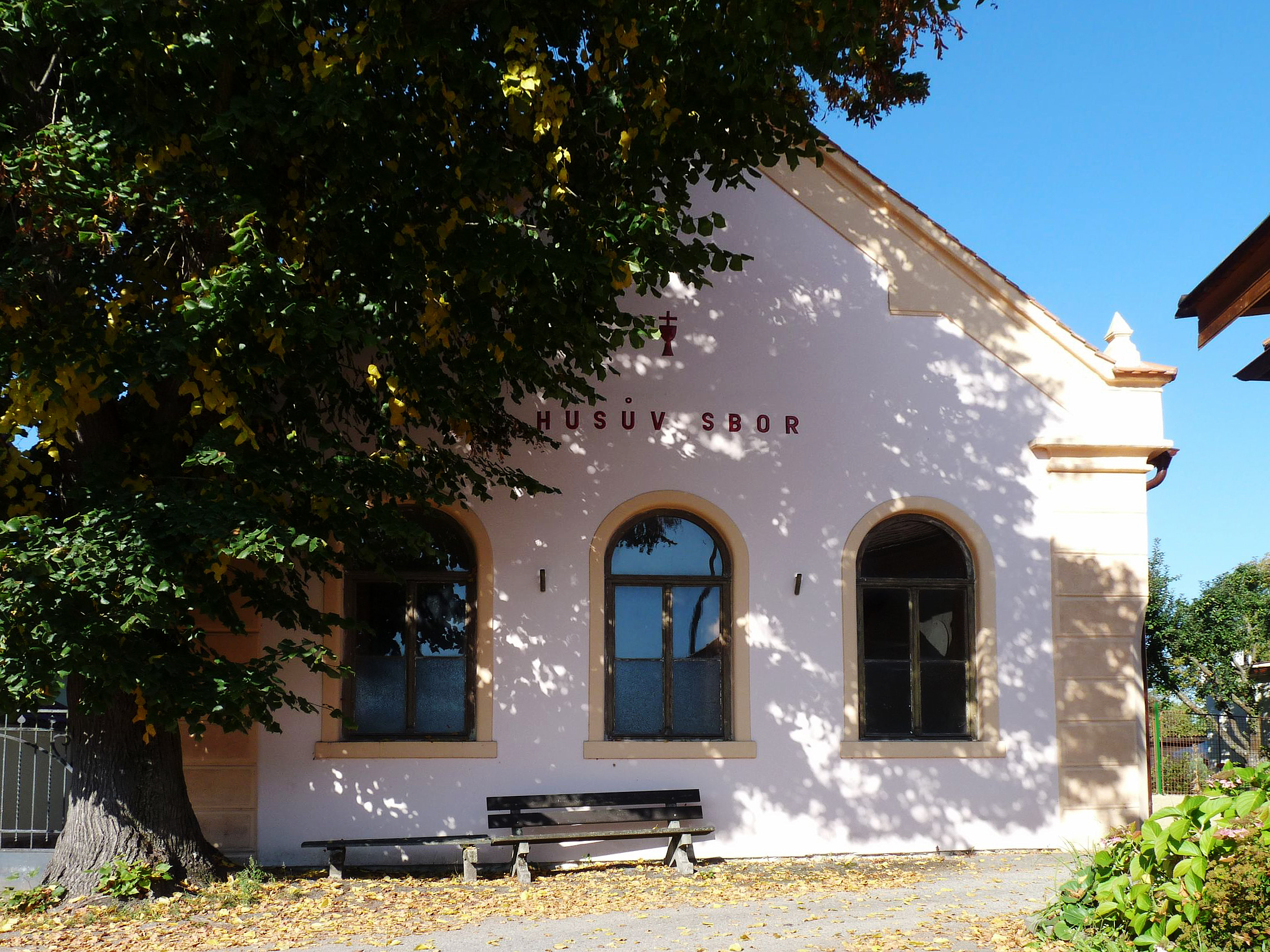 Former synagogue, nowadays a disused building of the Hussite church, in the town of Hluboká nad Vltavou in České Budějovice District.